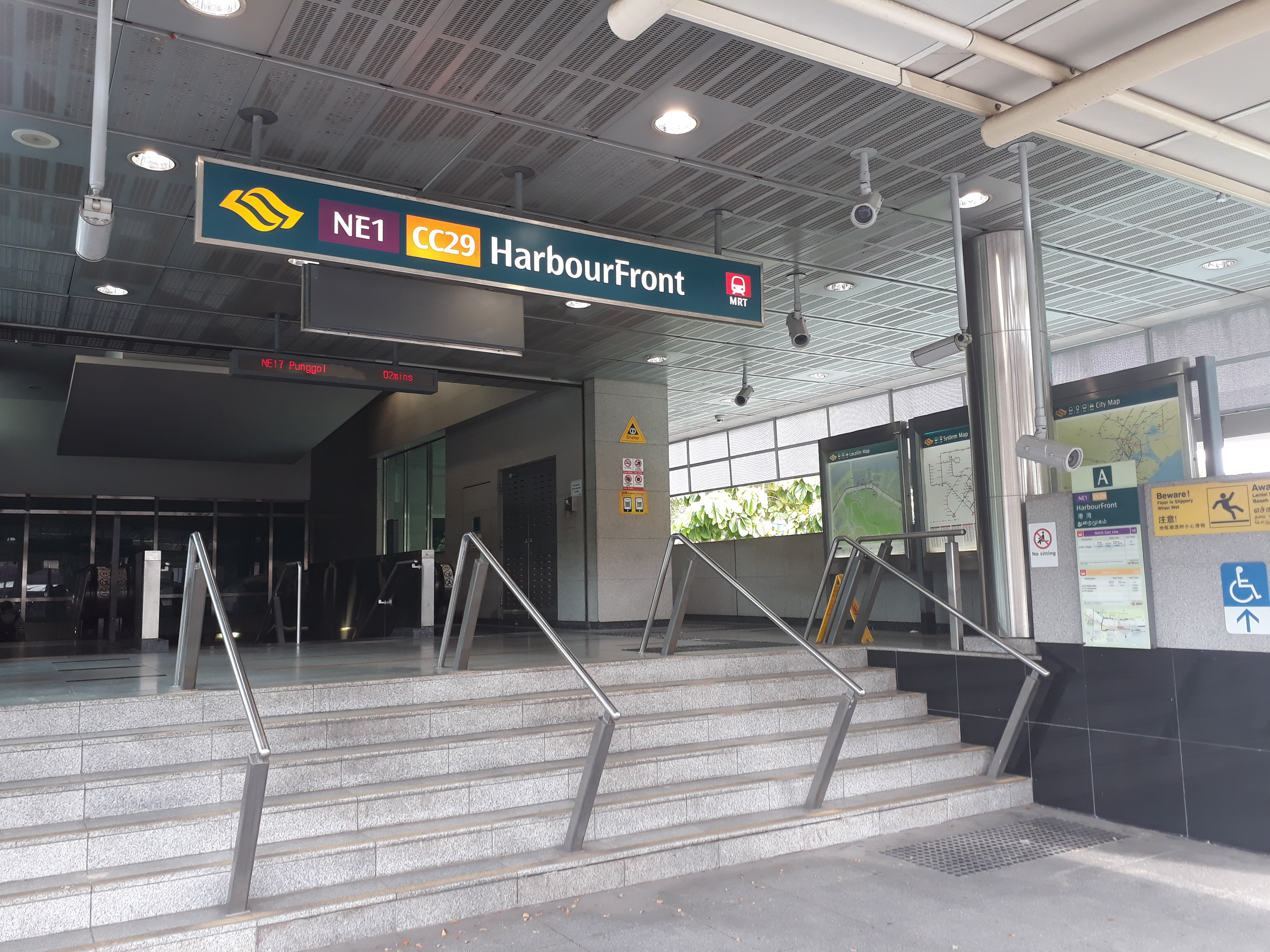 Exit A of Harbourfront station